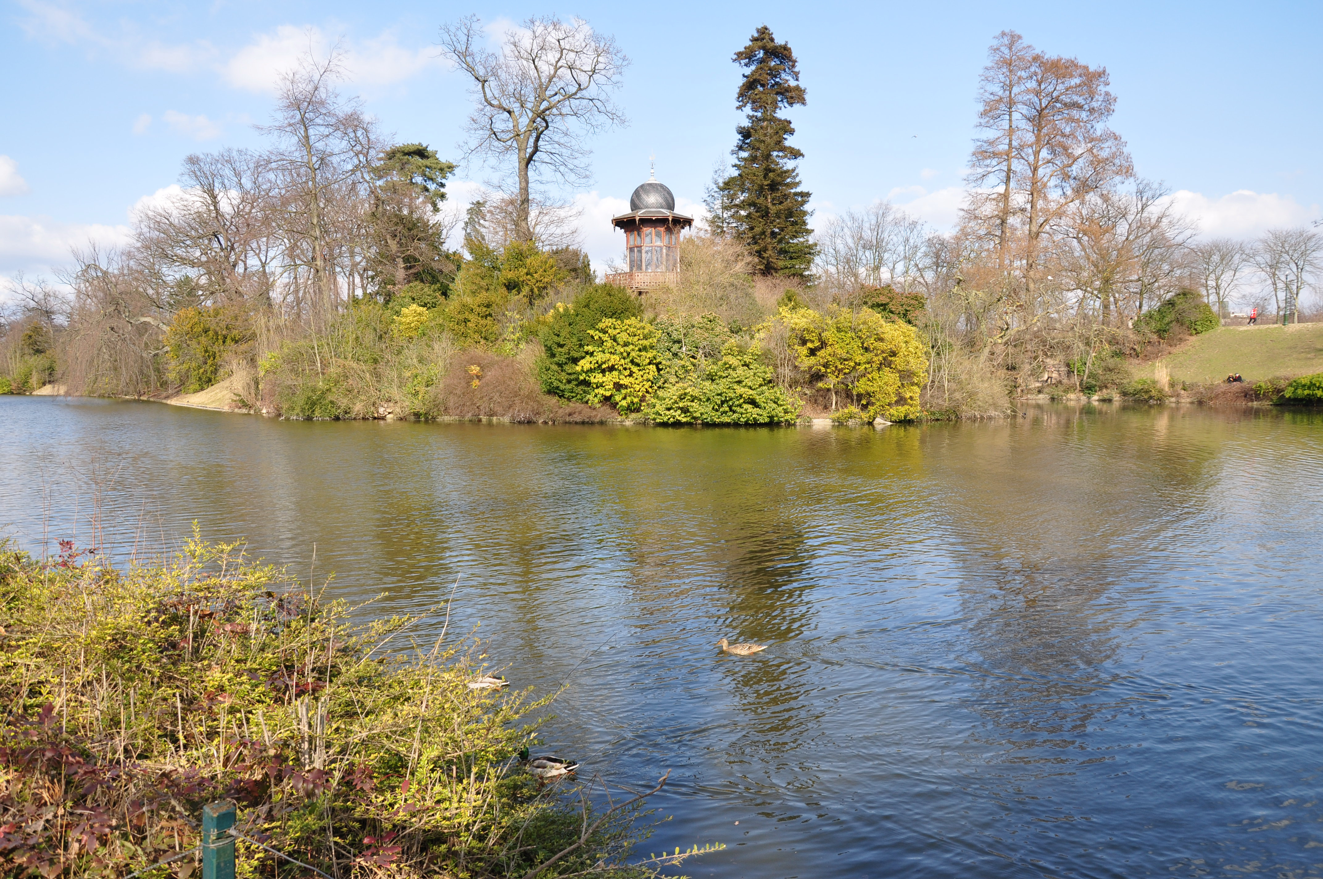 Kiosque de l'Empereur in the Bois de Boulogne at 16th district of Paris. Located at island on Lac Inférieur, built during the arrangement of the Bois de Boulogne in 1852 on the request of Napoleon III by the architect Gabriel Davioud.